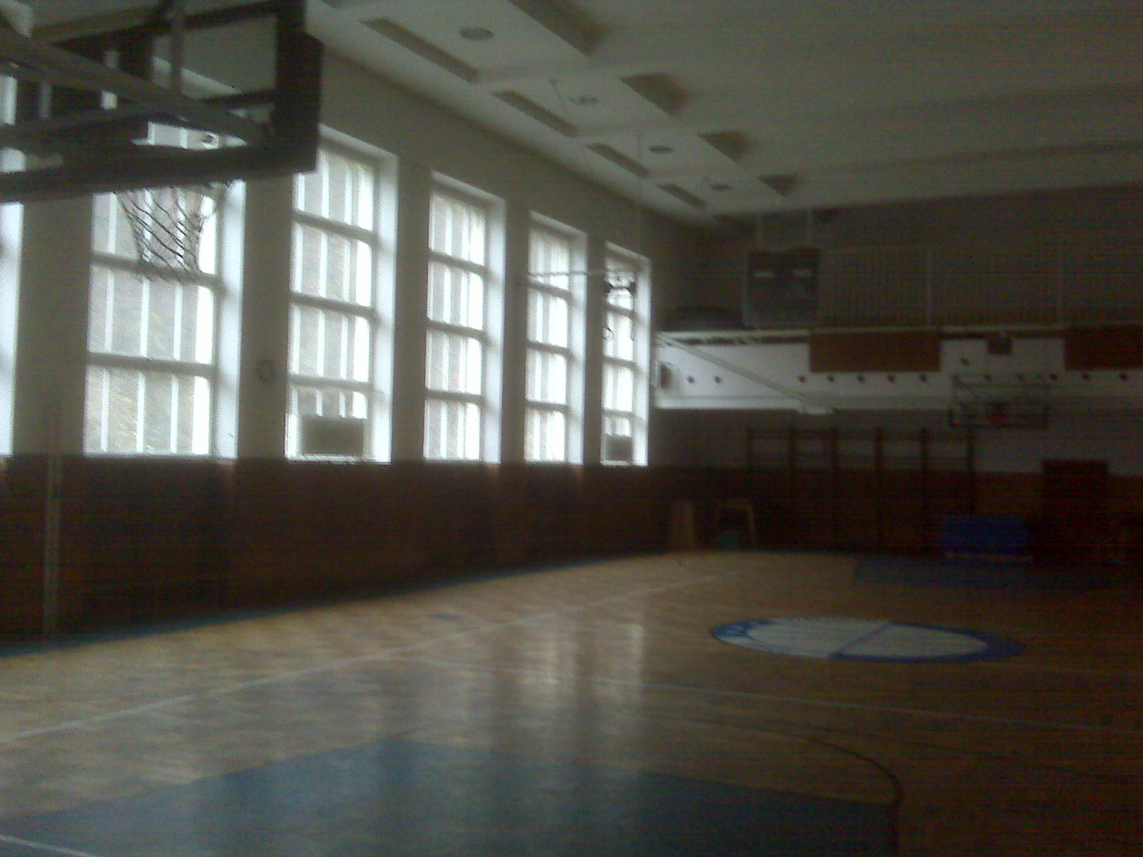 Photo Výtoň Arena - inside